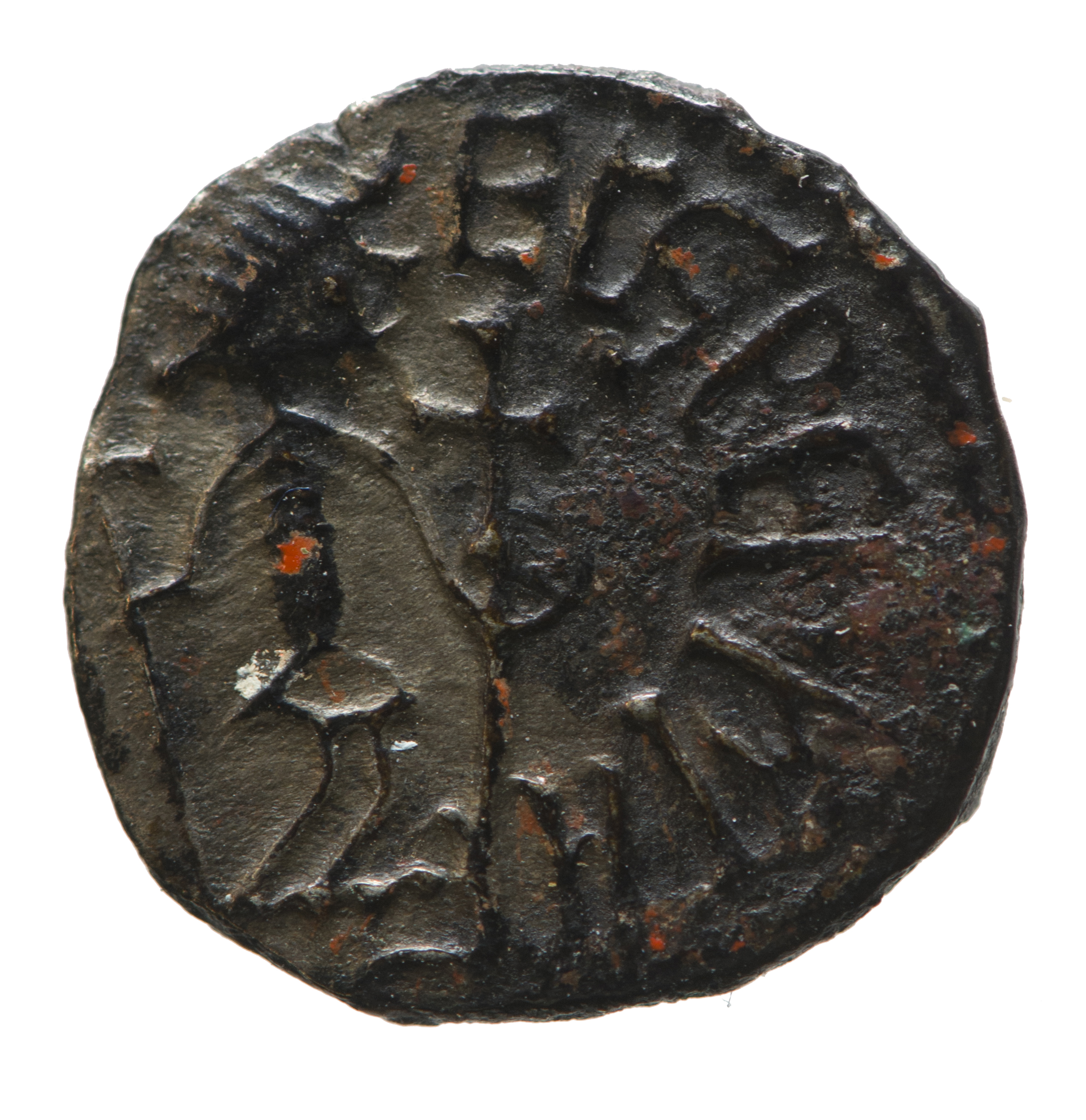 Reverse (back) of a silver sceatta of Eadberht_of_Northumbria with standing image of the archbishop holding two crosses